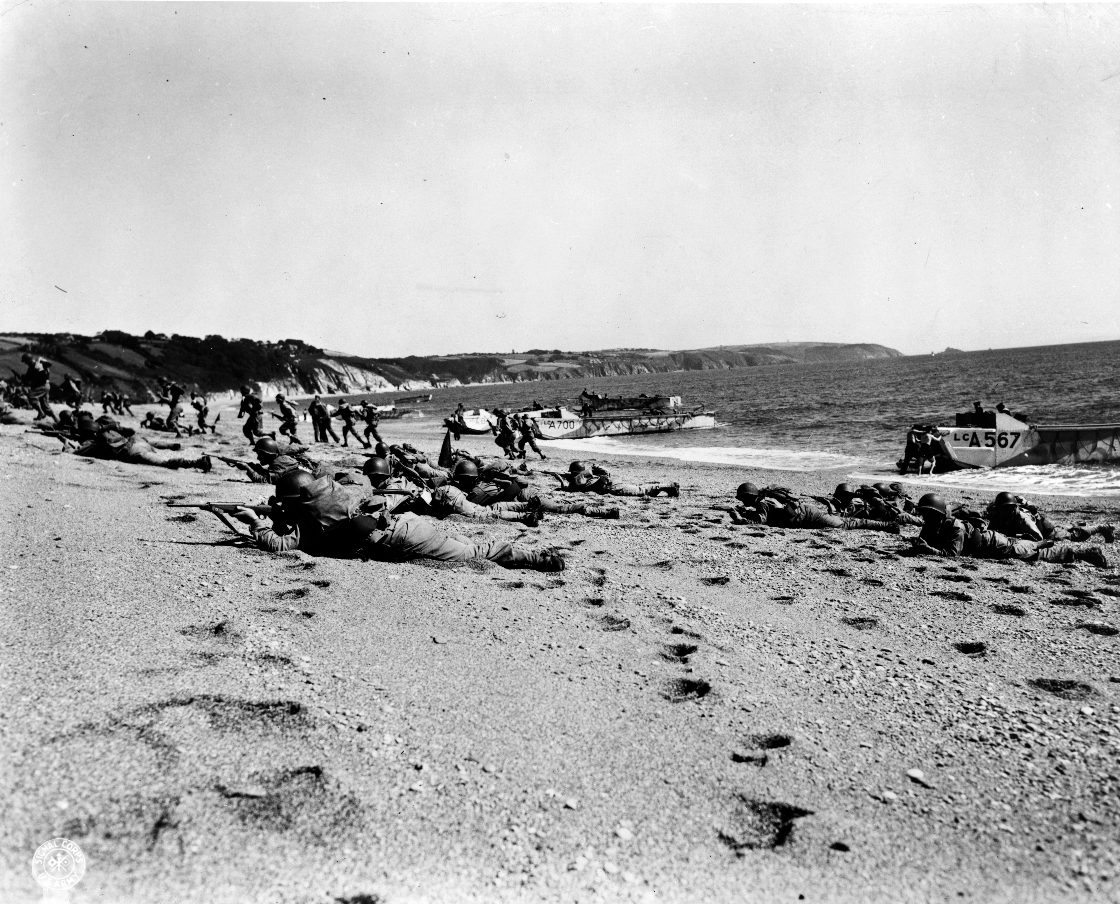 American troops landing on beach in England during rehearsal for invasion of Nazi occupied France ("Exercise Tiger").